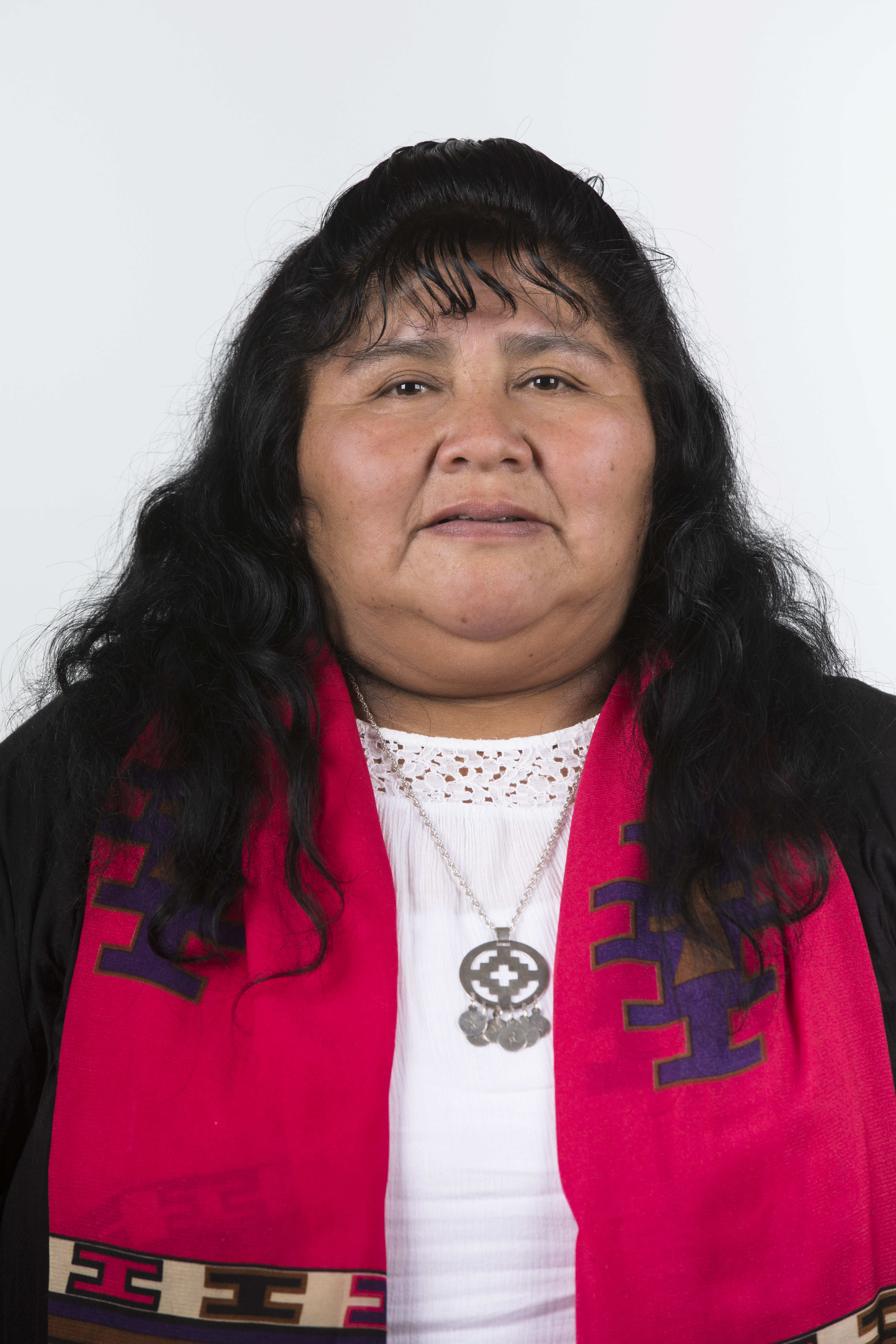 Emilia Iris Nuyado Ancapichún en la fotografía oficial de diputados periodo 2018-2022. (Fotos: Christel Andler, René Lescornez, Johanna Zárate)